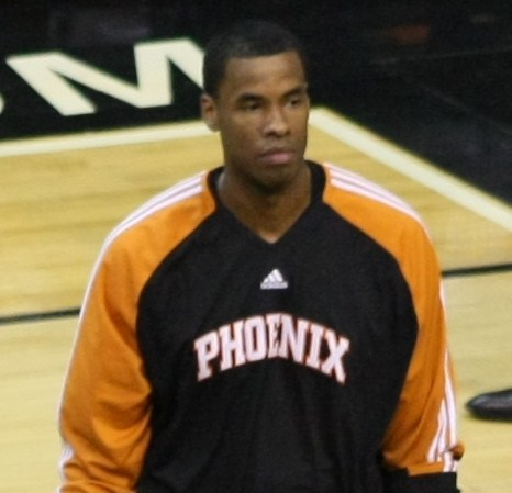 Washington Wizards v/s Phoenix Suns November 8, 2009 at Verizon Center in Washington, D.C.